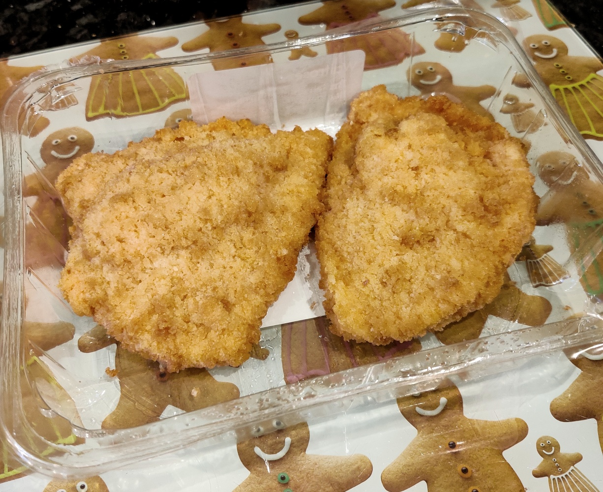 Pre-prepared chilled Chicken Kiev is a popular food in many countries and was the first such dish of its type available in supermarkets in 1979.